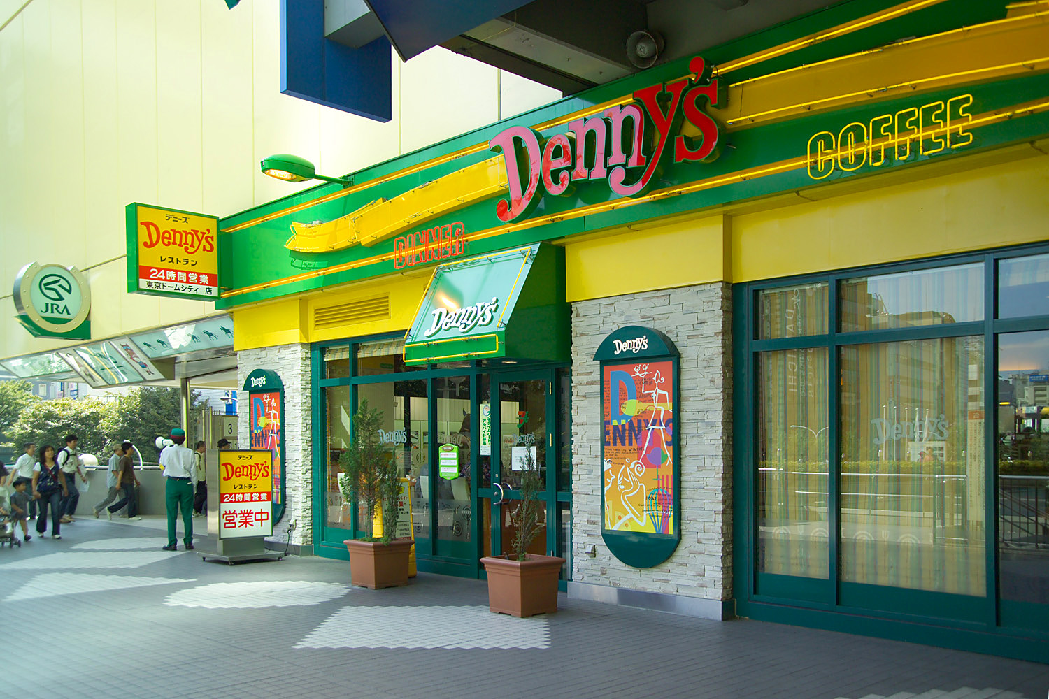 Denny's Restaurant, Tokyo Dome, Tokyo, Japan. I took the photo and release all my rights in this file to the public domain. Individuals and organizations retain rights to their images in the file.